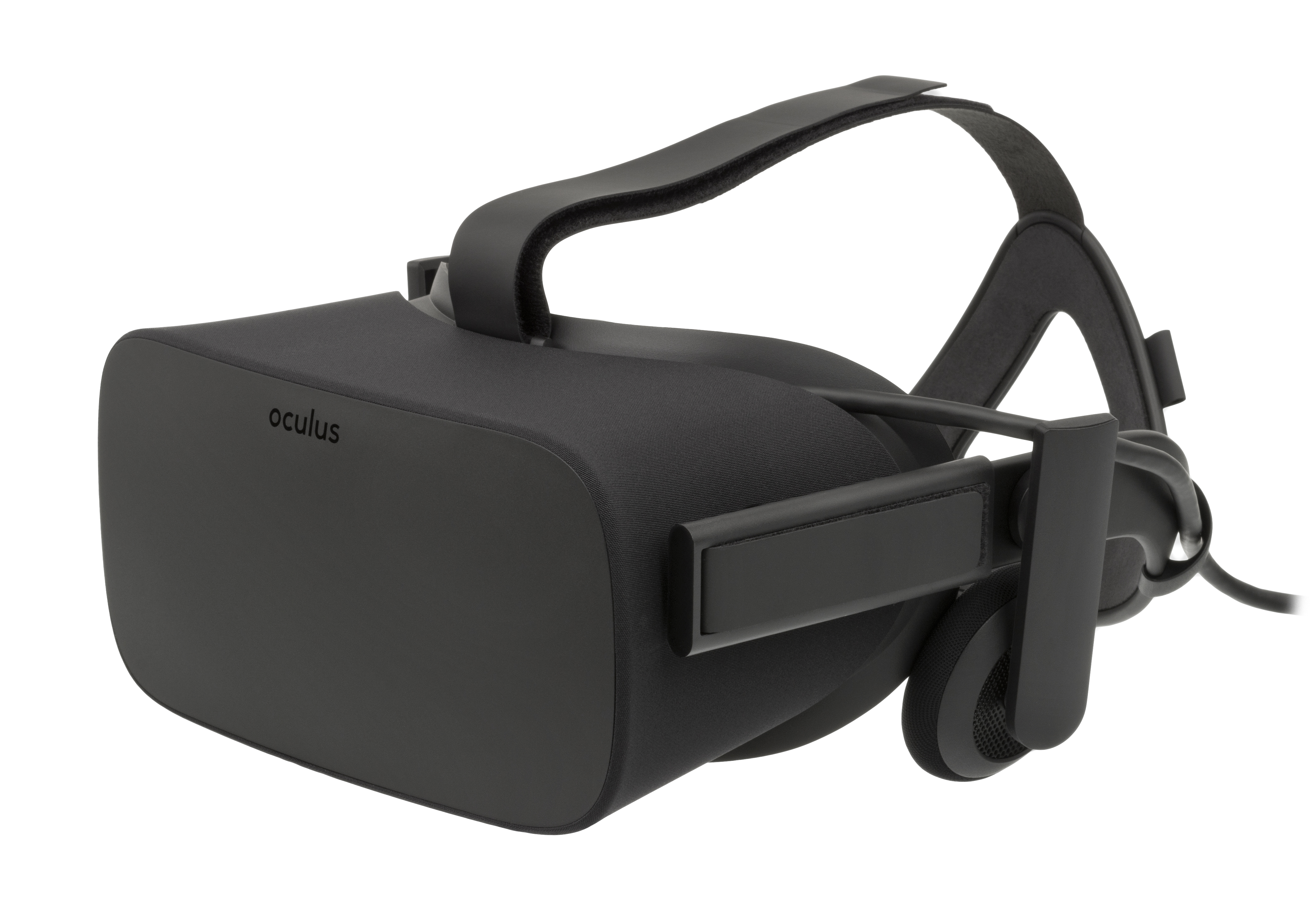 The Oculus Rift CV1 (Consumer Version 1), a virtual reality headset made by Oculus VR and released in 2016.